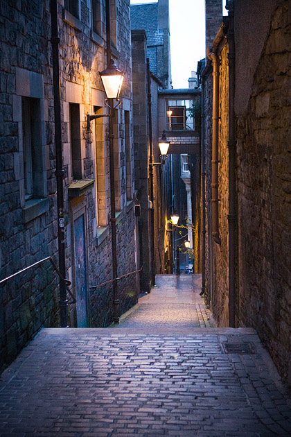 A twilight view of Anchor Close of the Royal Mile in Edinburgh, Scotland.